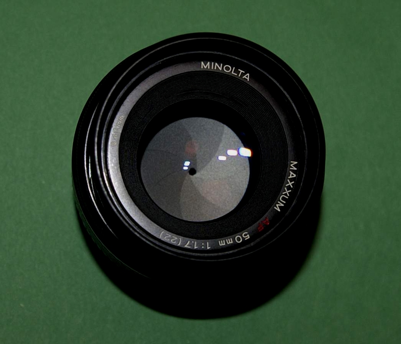 Minolta Maxxum 50mm f/1.7 prime lens with type “A” bayonet mount made in 1987 Notice the large aperture blades on this F1.7 prime lens This is a very popular lens that was made by Minolta from 1985 to 2005. This lens works with all Minolta Maxxum and Dynax SLR/DSLR cameras and all Sony Alpha DSLR cameras